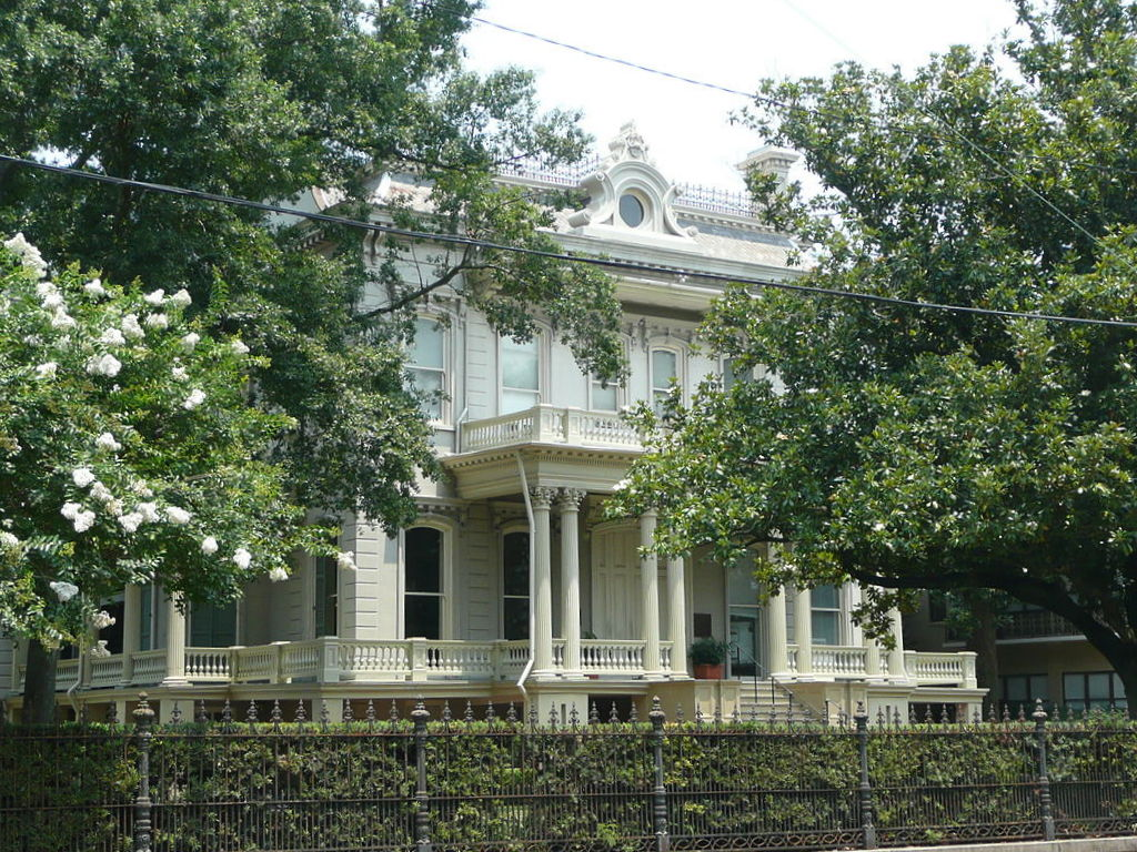 2343 Prytania Street, New Orleans. Designed by James Freret and built in 1872 for sugar planter Bradish Johnson. Since 1929 it has been a school. Now the McGehee School.